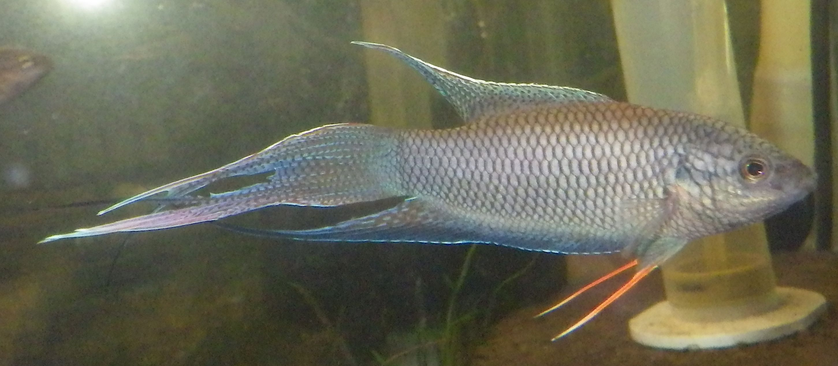 Adult male red-backed paradise fish